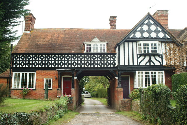 Lodge at West Clandon, Surrey Quite a striking building, with the black and white "half-timbered" effect. Another photograph taken from the middle of the road!